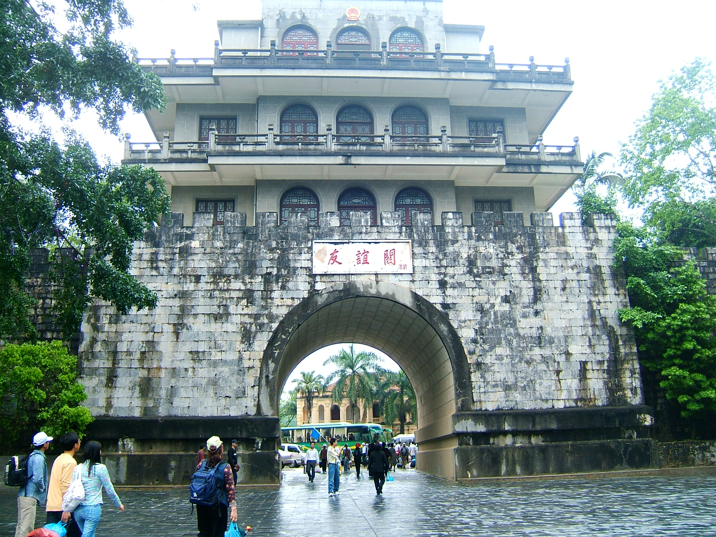 Nam Quan gate, now located in China previously in Vietnam until the border issue was settled